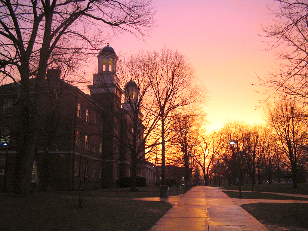 Harrison Hall at Miami University (Ohio)